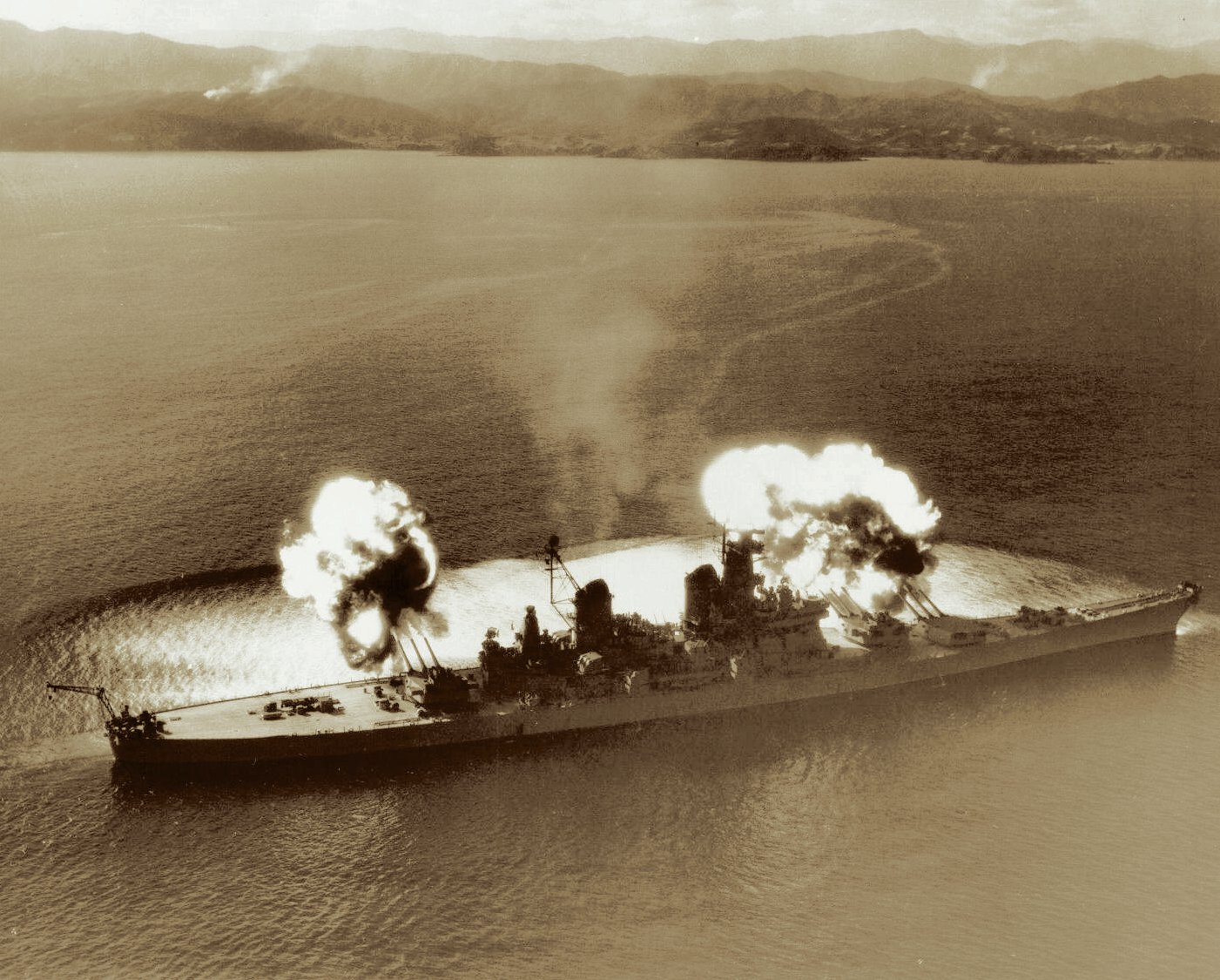 The U.S. Navy battleship USS New Jersey (BB-62) fires a nine 40.6 cm (16 in) gun salvo during bombardment operations against enemy targets in Korea, adjacent to the 38th parallel, on 10 November 1951. Smoke from shell explosions is visible ashore, in the upper left.